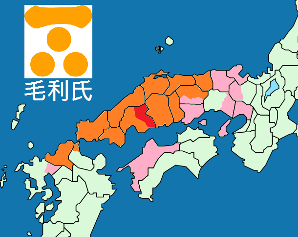 Map of Mōri clan 1568